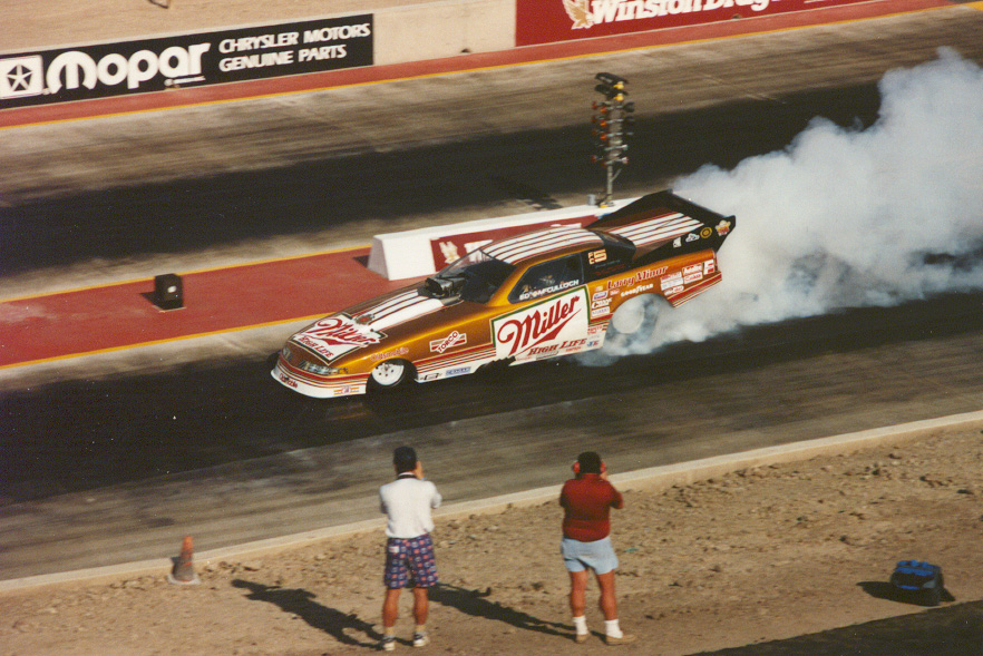 Ed Ace McCulloch, NHRA driverEd McCulloch